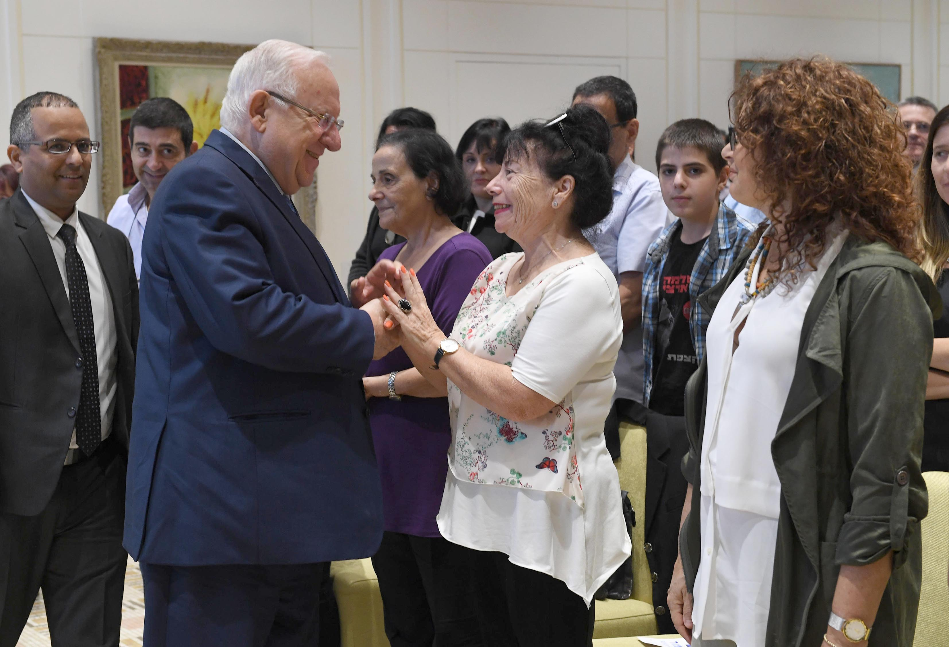 Reuven Rivlin at the award ceremony for the families of the eight workers of the Israel Railways in Haifa who were killed in the Second Lebanon War. Sunday, October 15, 2017. Photo Credit: Mark Neyman / GPO.